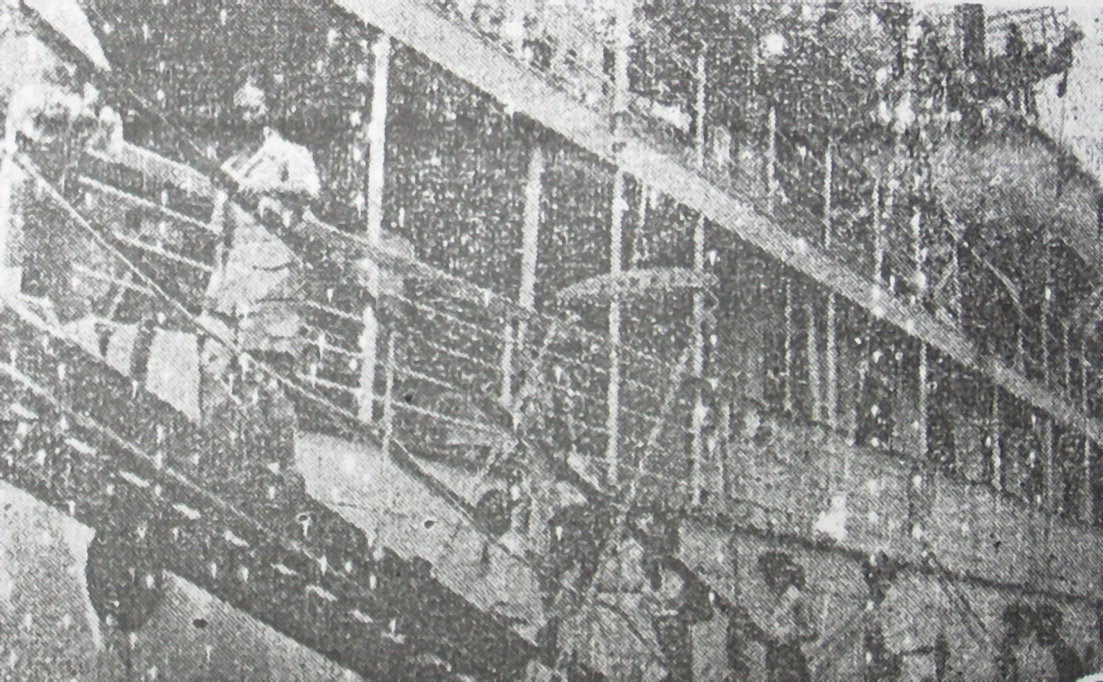 Indonesian director D. Djajakusuma boarding a ship before the filming of Arni